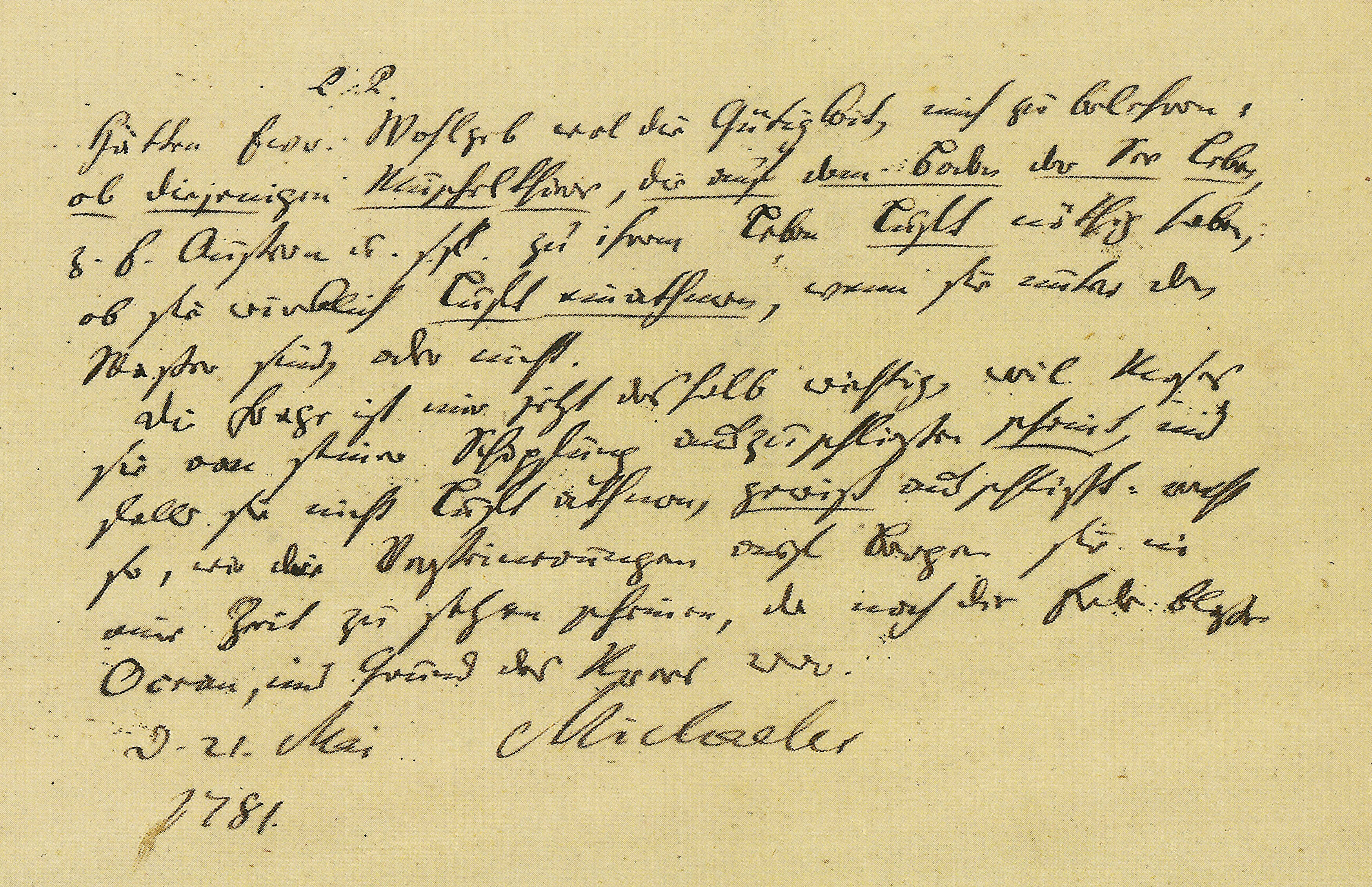 Letter from Johann David Michaelis to Georg Christoph Lichtenberg, both professors of Goettingen University, Germany Text: P[raemissis] P[raemittendis] Hätten Ew[er] Wohlgeb[oren] wol die Gütigkeit, mich zu belehren, ob diejenigen Muschelthiere, die auf dem Boden der See leben, z[um] B[eispiel] Austern u[nd] s[o] f[ort] zu ihrem Leben Luft nöthig haben, ob sie wirklich Luft einathmen, wenn sie unter dem Wasser sind, oder nicht. Die Frage ist mir jetzt deshalb wichtig, weil Moses sie von seiner Schöpfung auszuschließen scheint, und falls sie nicht Luft athmen, gewiß ausschließt; recht so, wie die Versteinerungen auf Bergen sie in eine Zeit zu setzen scheinen, da noch die Erde bloßer Ocean, und Grund des Meeres war. d[en] 21. Mai 1781 Michaelis